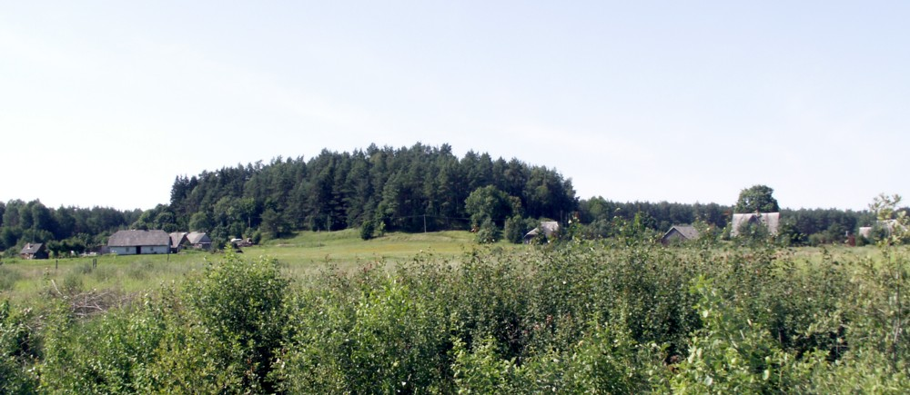 Valatkiai, Šiauliai district, Lithuania